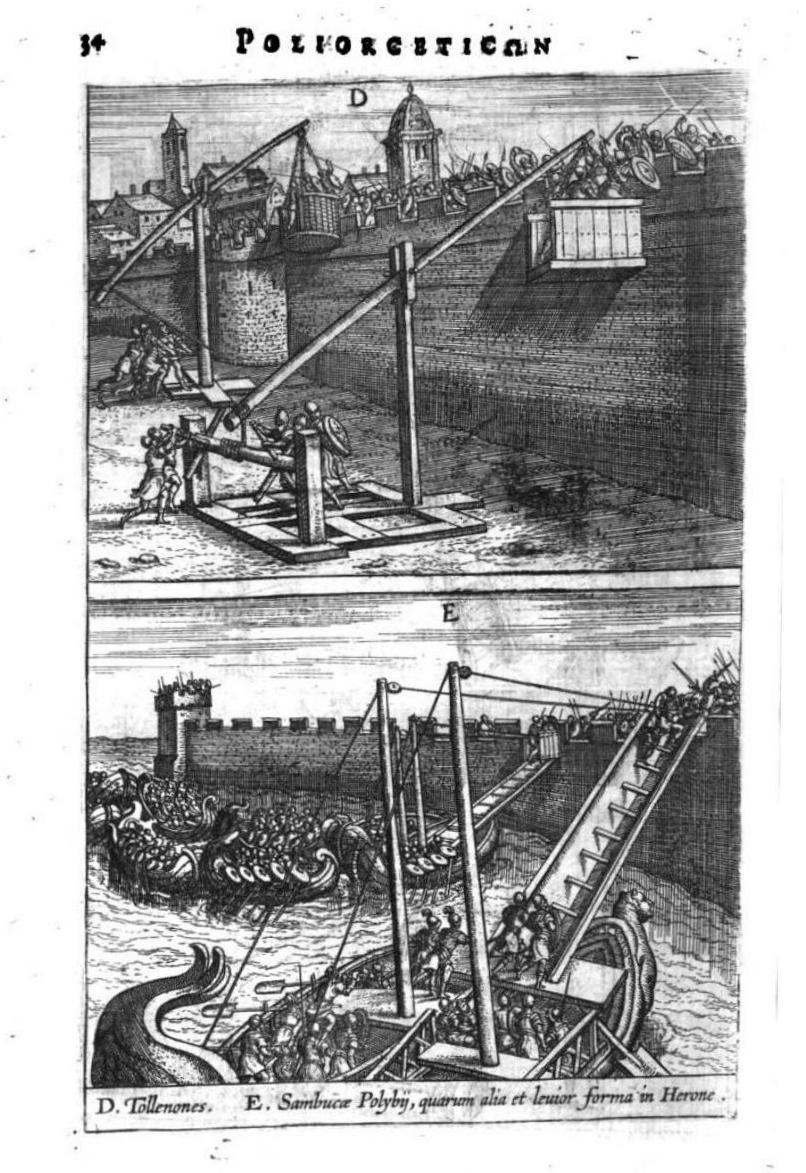 Tonnelon - Siege Equipment Sambuca - Roman Naval Siege Equipment